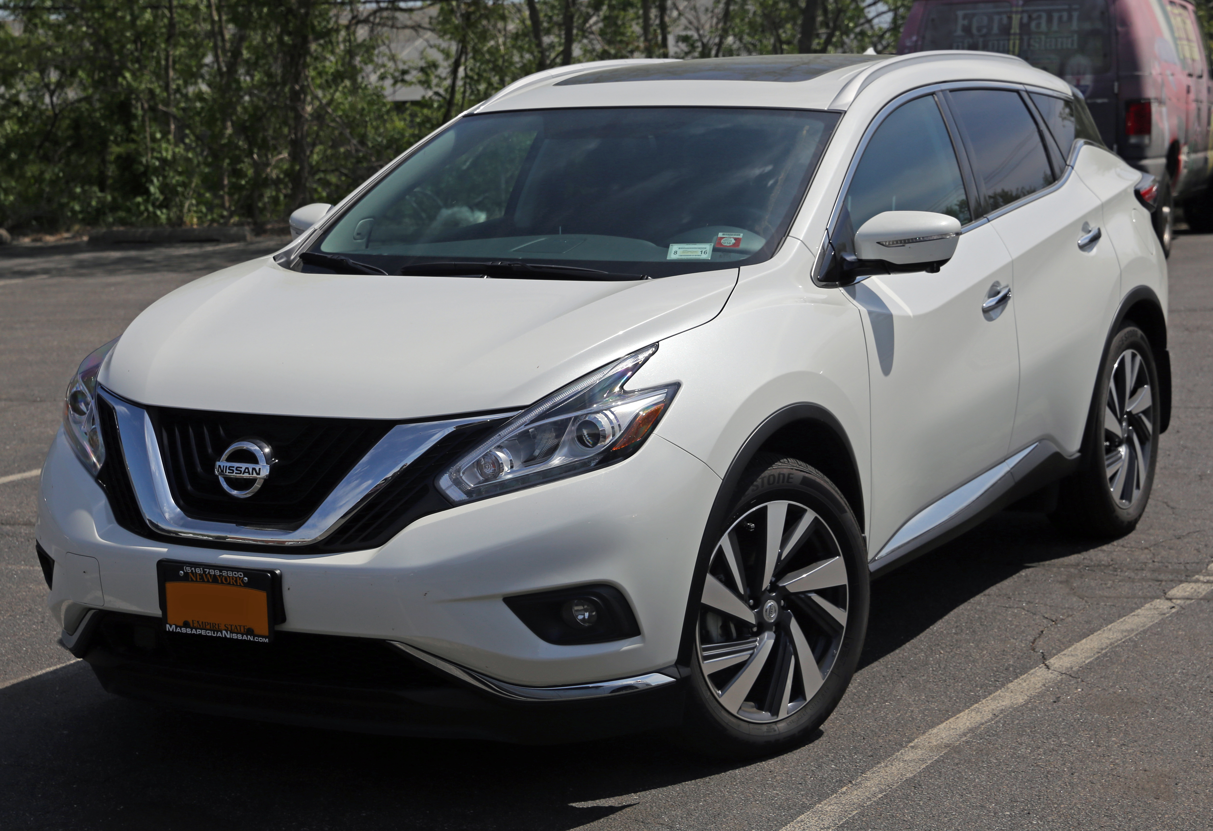 A 2015 Nissan Murano SV AWD. 3.5 litre V6, CVT, and four-wheel drive. Looks better than earlier generations.